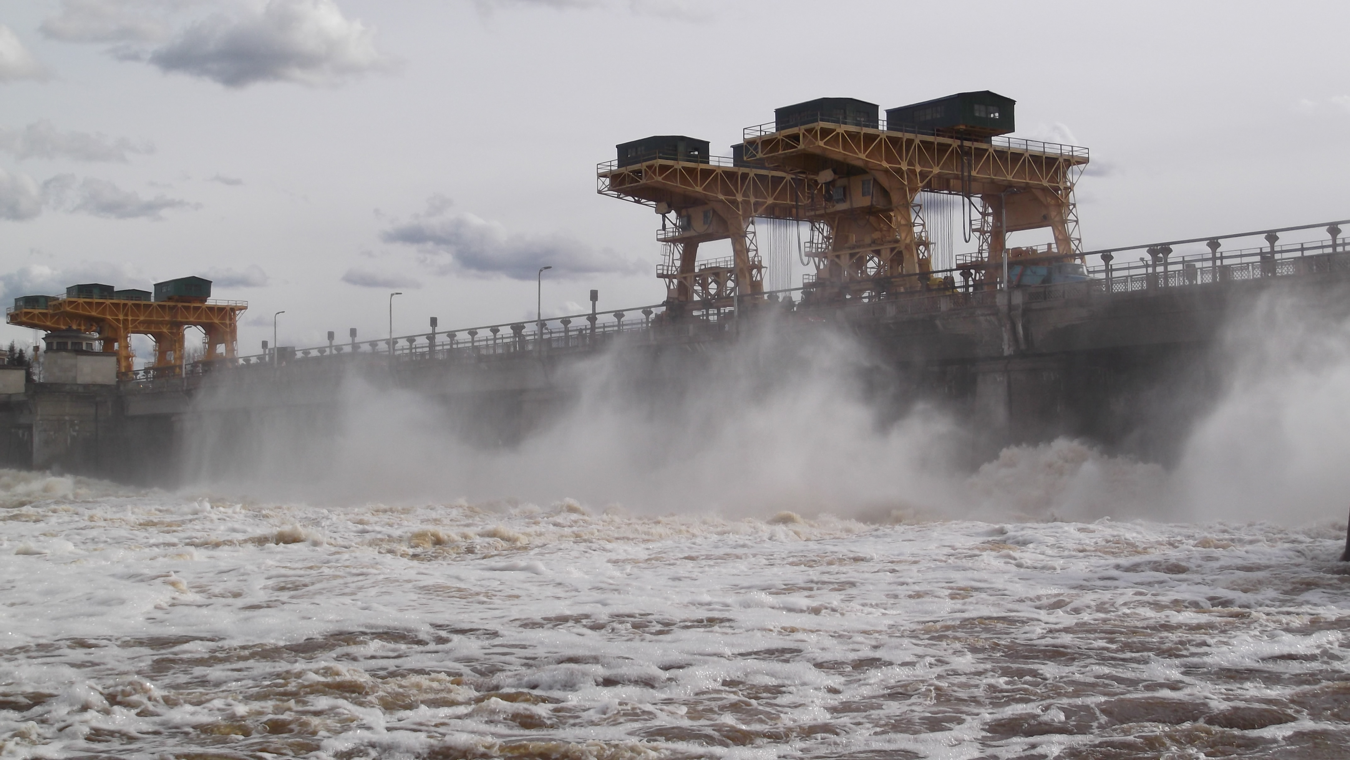 Dubna, Moscow Oblast, Russia